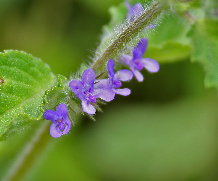 American Mint, Vilayti Tulsi, pignut, stinking Roger, wild spikenard or Darp Tulas Hyptis suaveolens in Hyderabad , India.